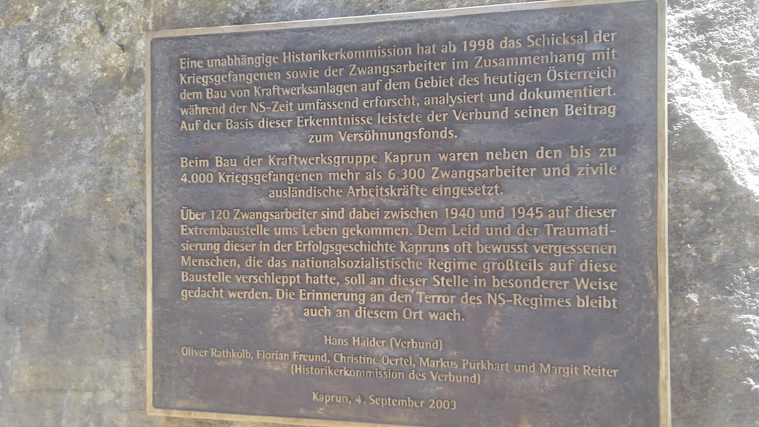 A commemoration sign to the forced-work laborers who perished while building the Kaprun-Kitzsteinhorn dam during WWII